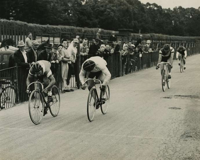 License to Race:Cycling on the Golden Gate Park Polo Field 1930s–1950s. Presented by SFO Museum